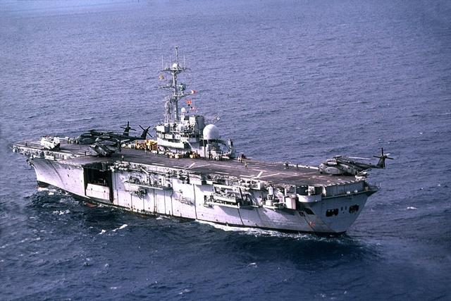 The U.S. Navy mine countermeasures ship USS Inchon (MCS-12) underway in September 1997.